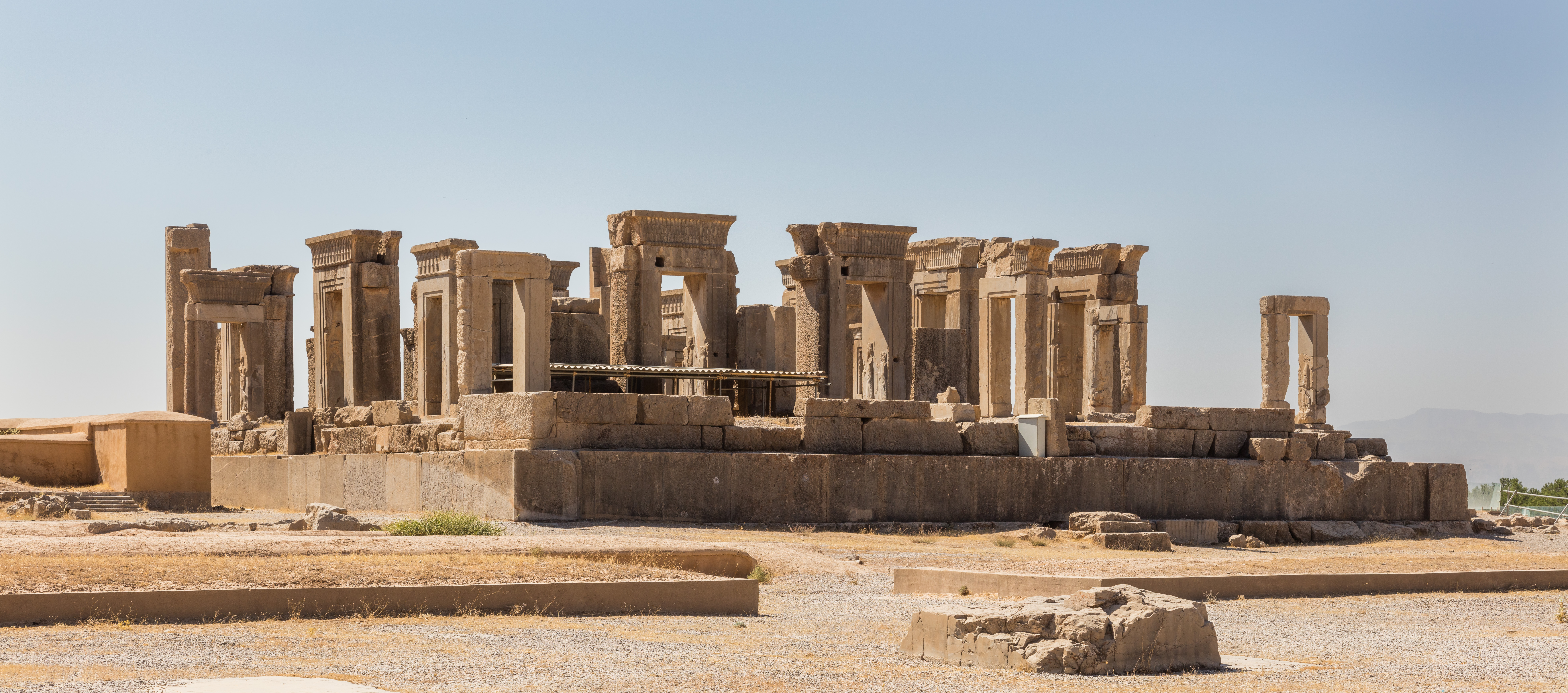 Palace of Darius the Great in Persepolis ("The Persian City"), situated 60 kilometres (37 mi) northeast of the city of Shiraz in Fars Province, Iran. The UNESCO World Heritage Site since 1979 dates back to 515 BC and it was the ceremonial capital of the Achaemenid Empire.